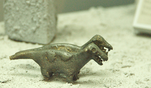 Precolombian Beasties